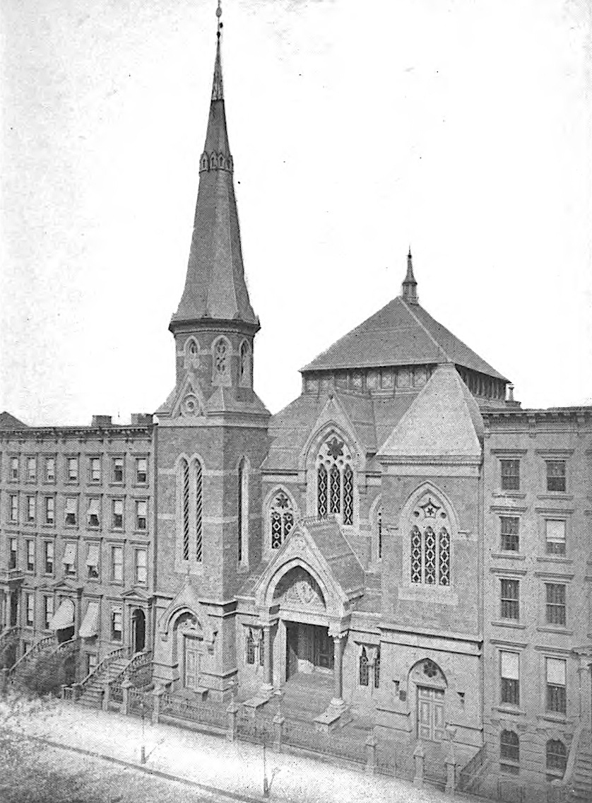 West Presbyterian Church (New York City).Caption reads:“Dr. Hastings’ old church -- the West Presbyterian -- Forty-second Street"1876, now [1920] site of Aeolian Hall.”